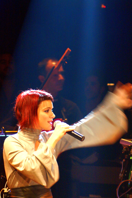 Andriana Babali Performing in Athens , 2007 .